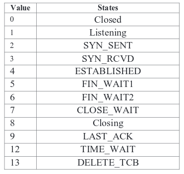 tcp states